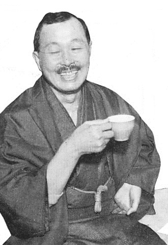 Joji Matsumoto